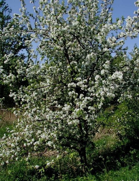 Malus domestica: Flowering tree.